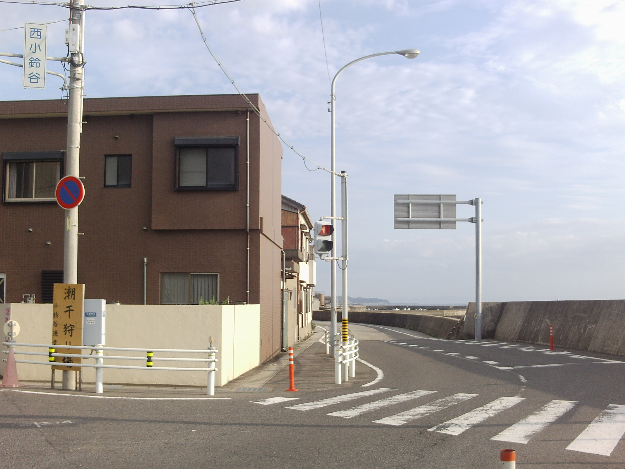 Aichi prefectural road No.274 in Kosugaya, Tokoname, Aichi.